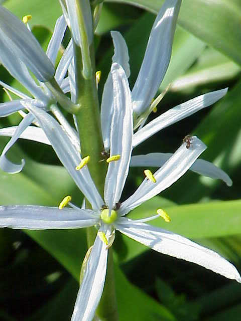 Species: Camassia cusickii Family: Hyacinthaceae Image No. 1